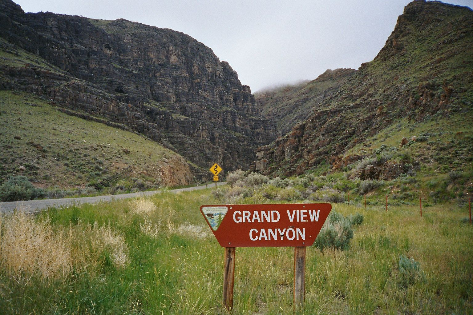 Grand View Canyon (US Route 93) between Mackey and Challis